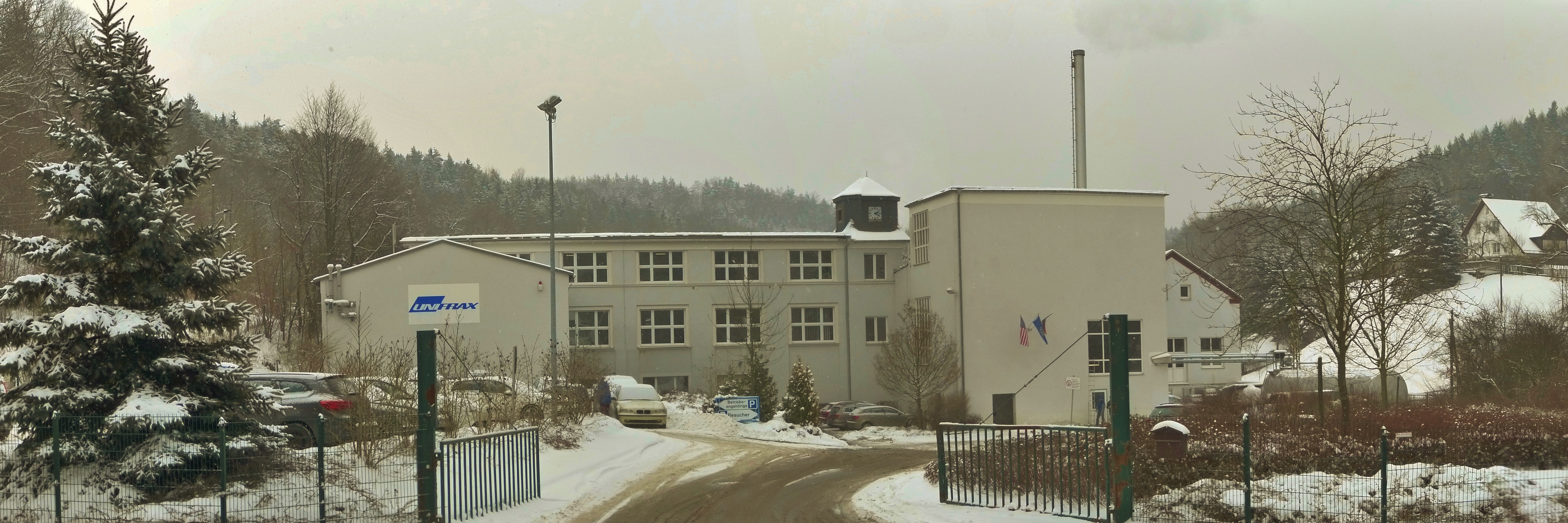 Unifrax factory Kleinreinsdorf